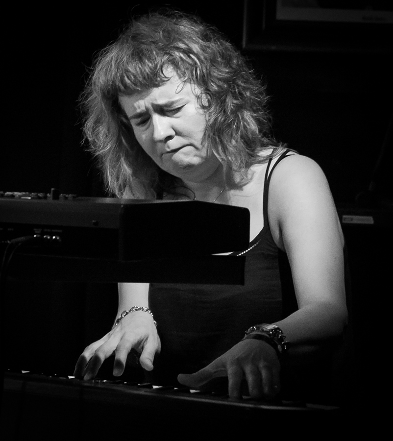 Olga Konkova performs with Per Mathisen Wonder Quartet at the stage of Buckleys. The concert was part of the Oslo Jazz Festival in Norway and took place on 18. August 2016. Lineup: Per Mathisen (double bass) Olga Konkova (keyboard) Bendik Hofseth (tenor saxophone) Utsi Zimring (drums)